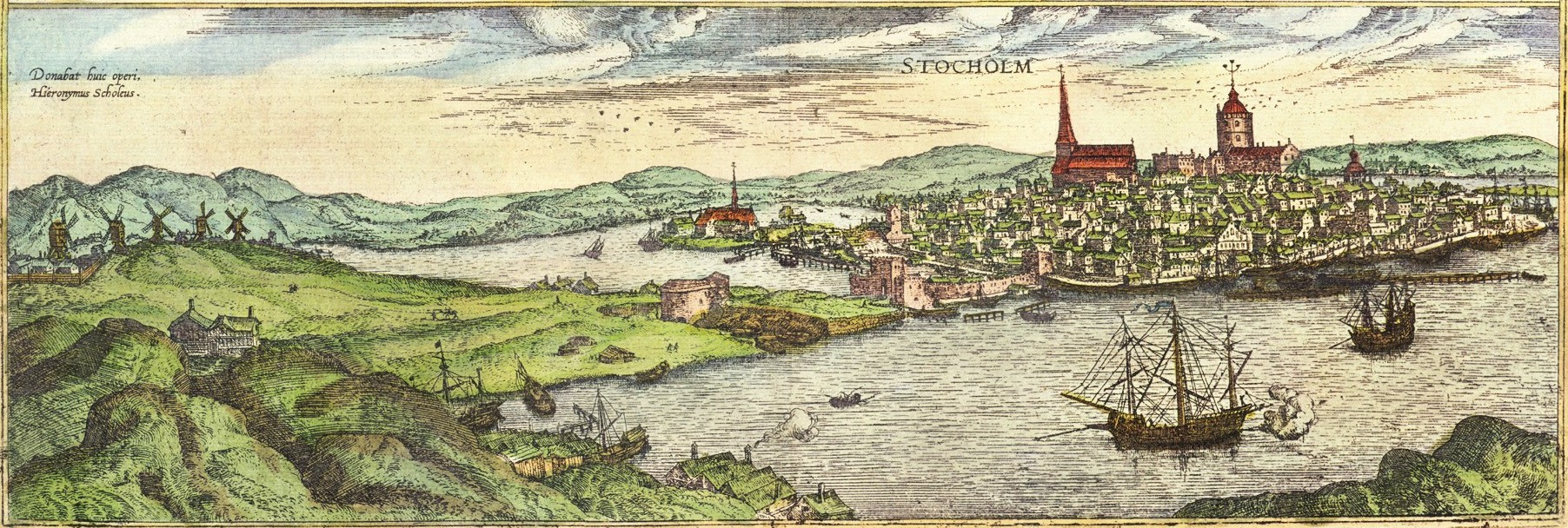 Stockholm viewed from south. Copperplate by Frans Hogenberg c. 1570.